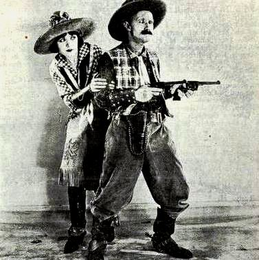 Still from the American comedy film A Small Town Idol with Ben Turpin and Marie Prevost, on page 1 of the February 4, 1921 Film Daily.